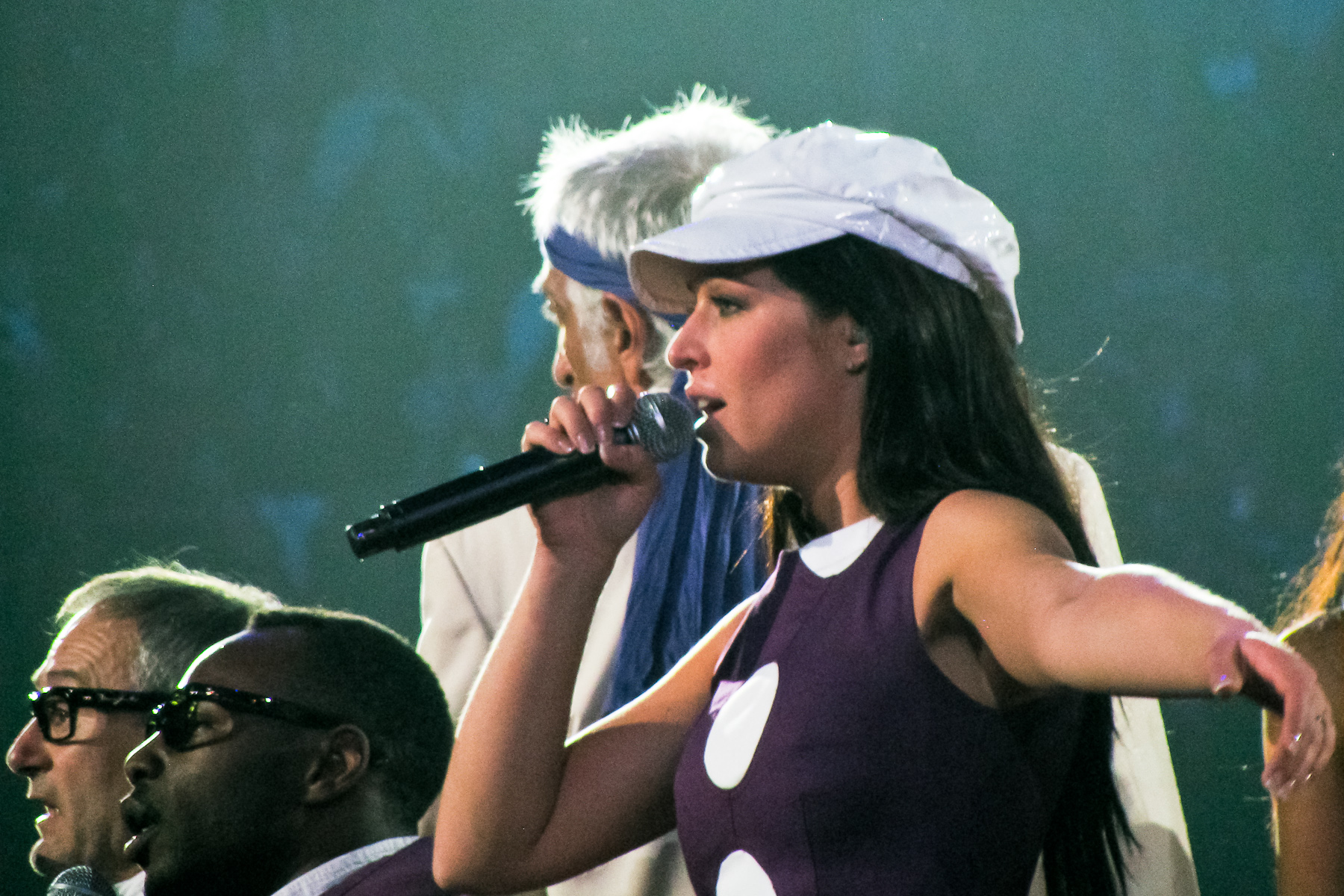 Natasha St-Pier singing in Les Enfoirés concert in Bercy, in Paris (2009-01-22)